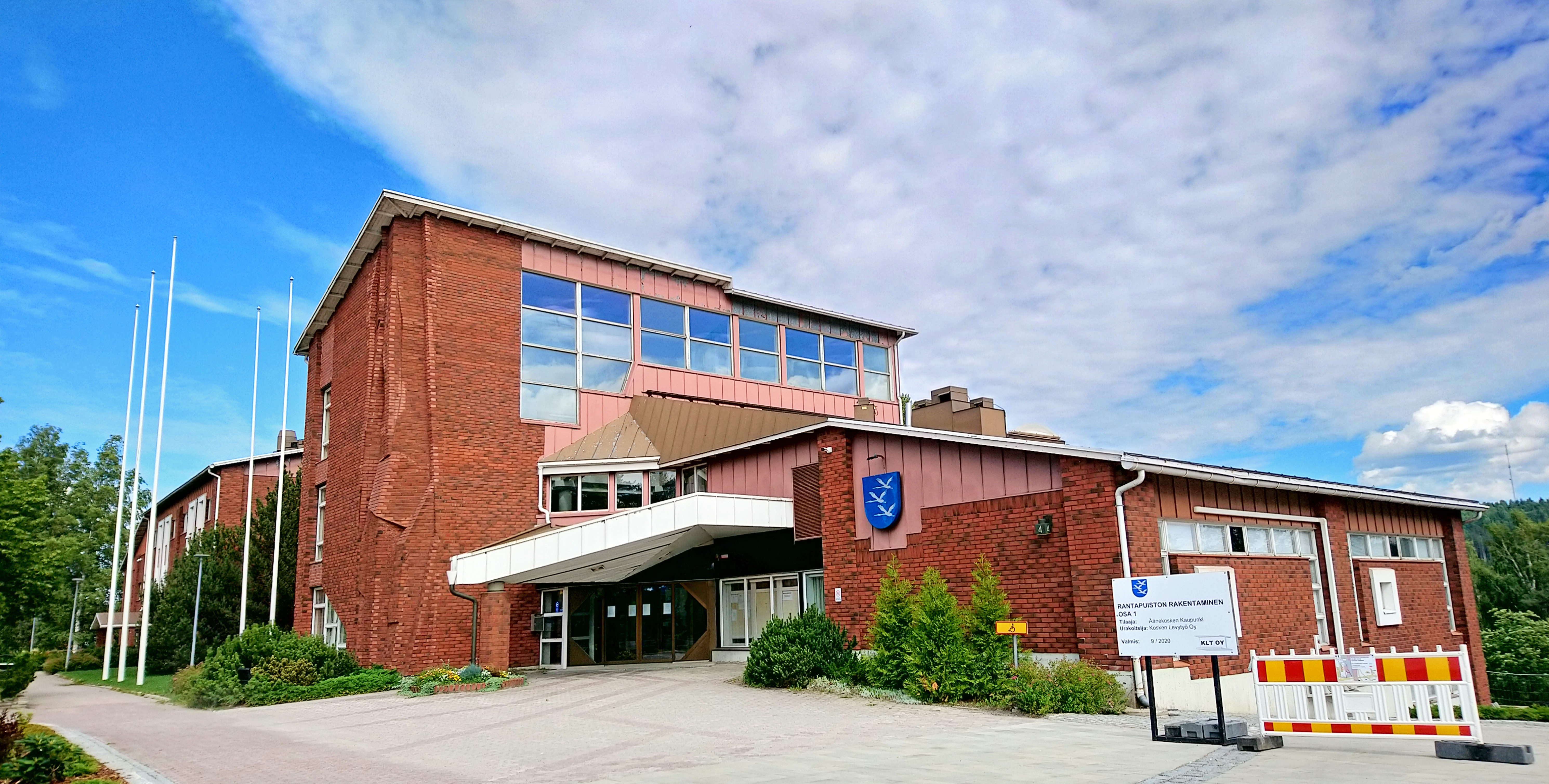 Äänekoski town hall